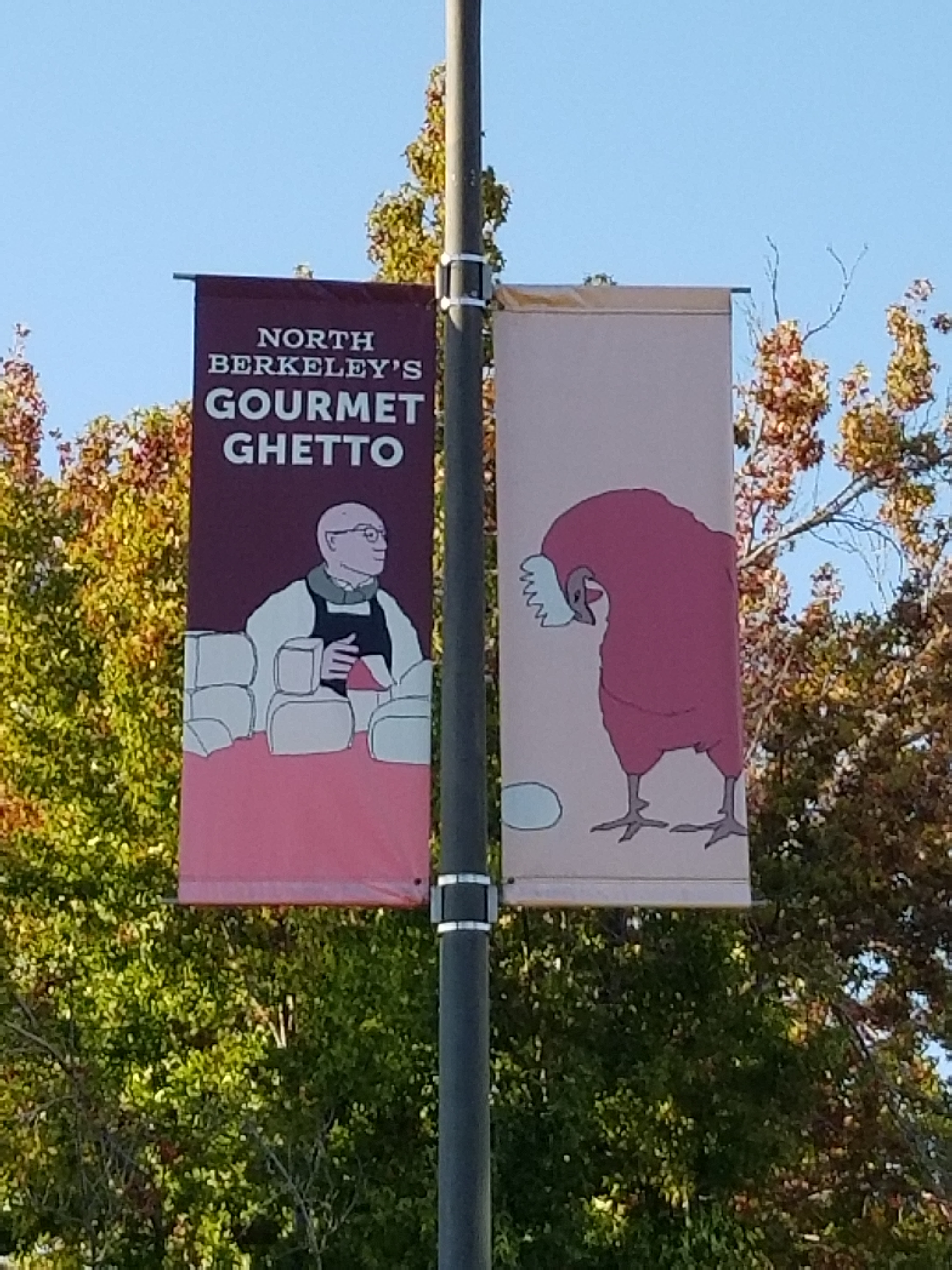 Promotional sign found in Berkeley California's gourmet ghetto